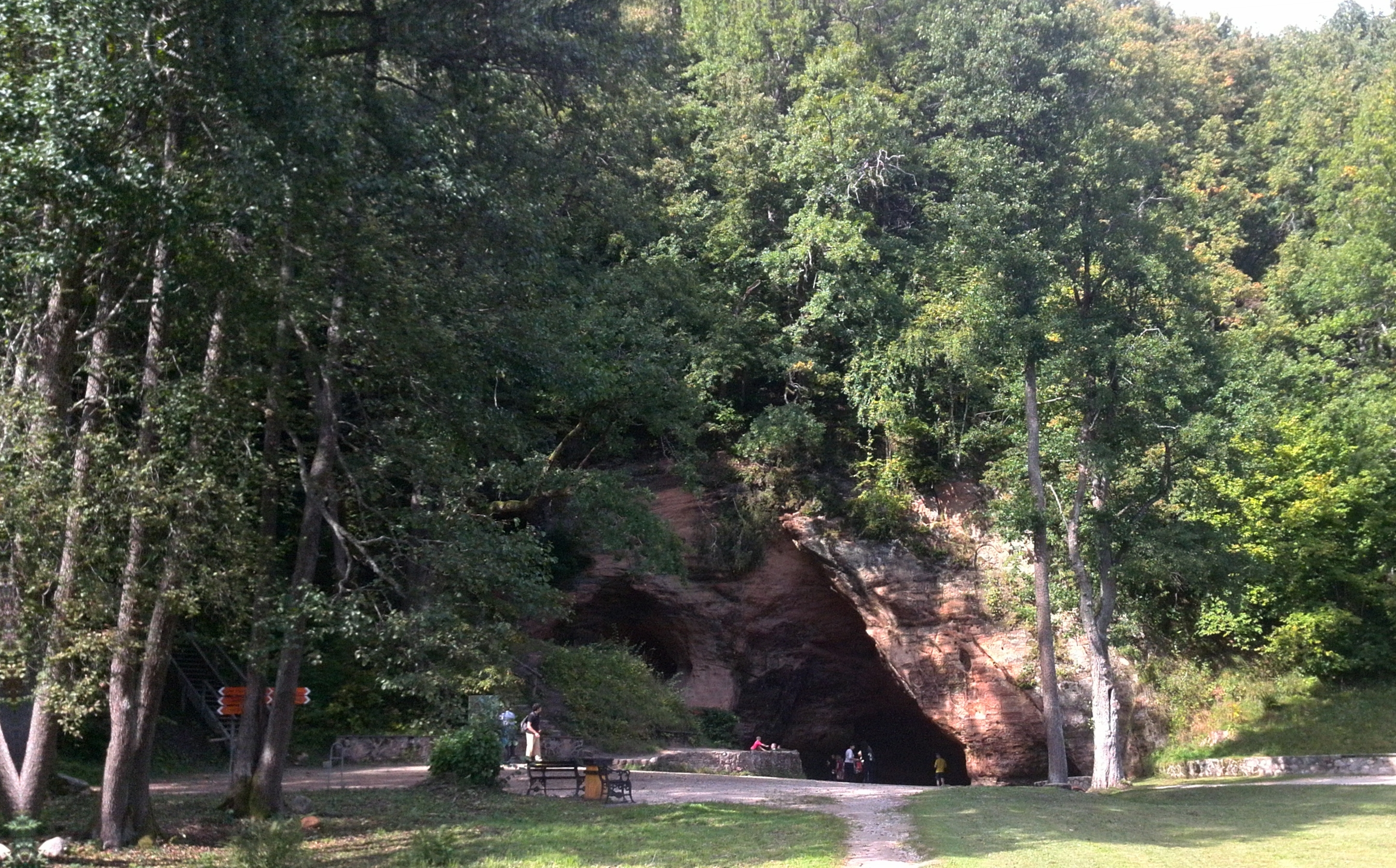 Gutman cave in Sigulda — the largest natural cavern in Latvia